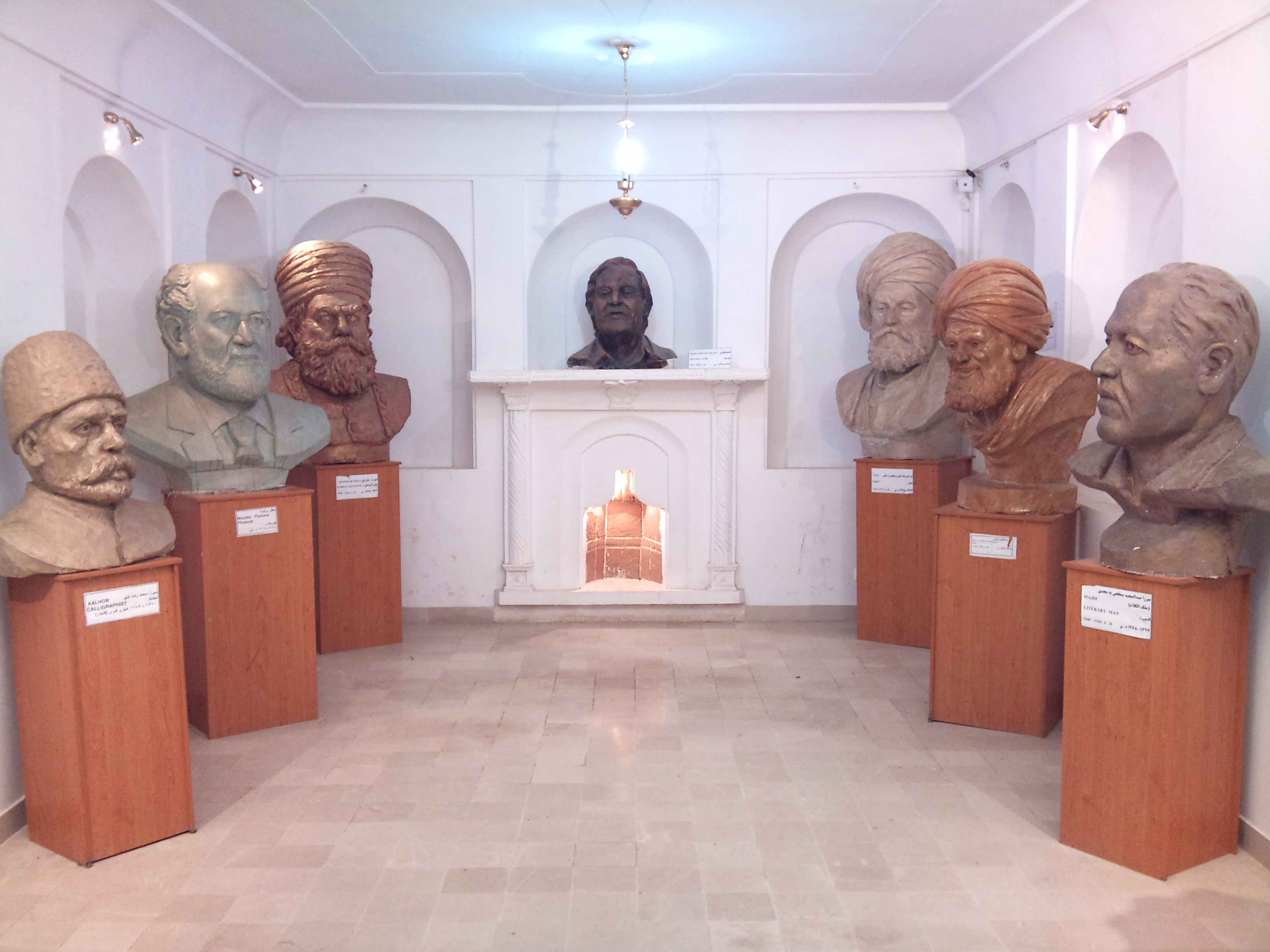 Asef Vaziri Building (kurdish house)